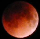 Cropped and rotate from origin